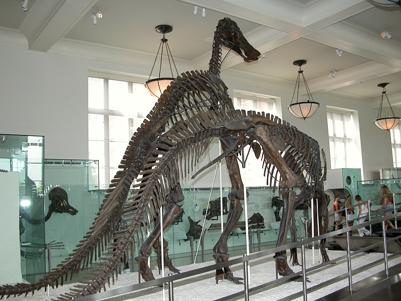 Mounted skeletons of Edmontosaurus annectens at the American Museum of Natural History, New York, USA.